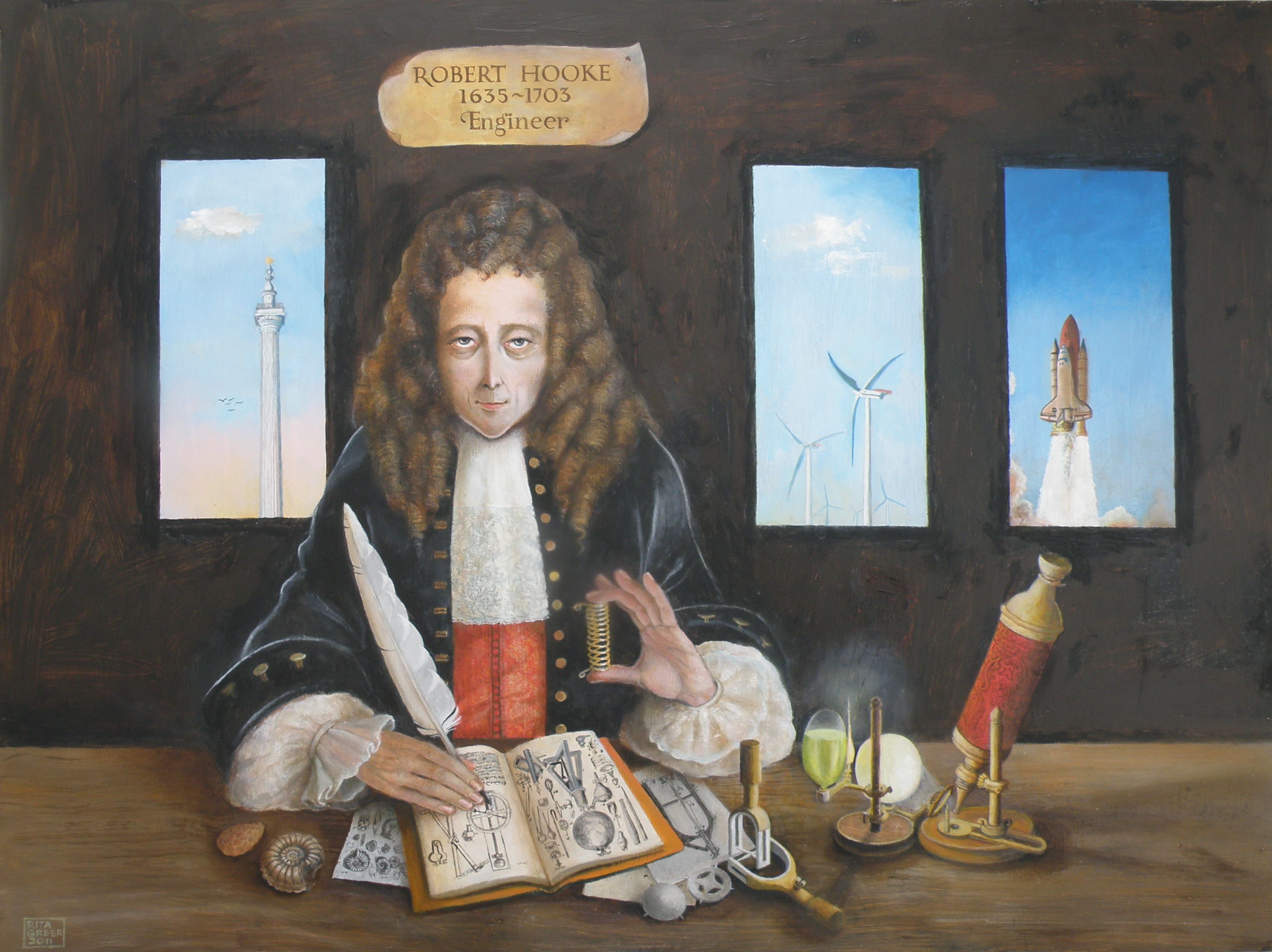 Memorial portrait for the Royal Academy of Engineering, London. Wording is: Robert Hooke 1635-1703 Engineer. Shows Hooke at a bench, surrounded by his microscope, book with working drawings, a spring, universal joint, etc. The three windows show his pillar (The Monument), wind turbines and the shuttle. Title of the painting is ‘Progress’. Oil on board 2011.